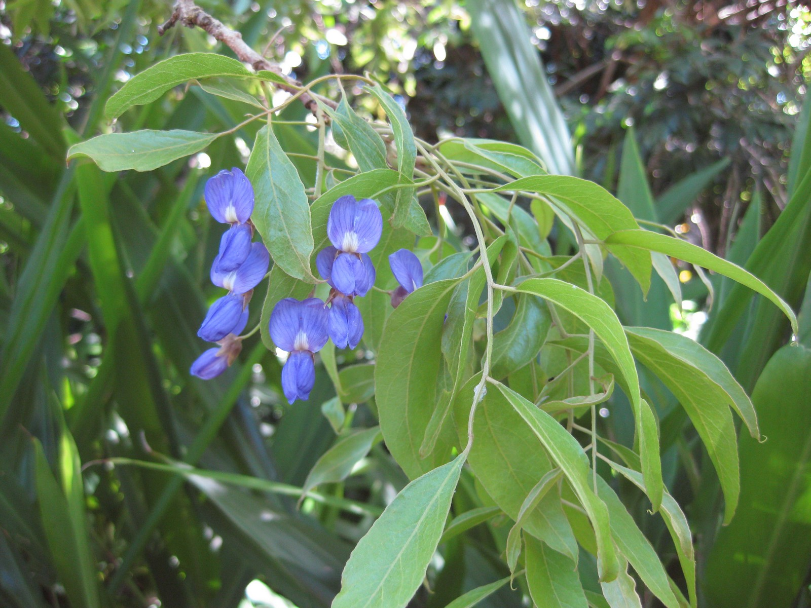 Photographed at the Royal Botanic Gardens Sydney (Australia) in December